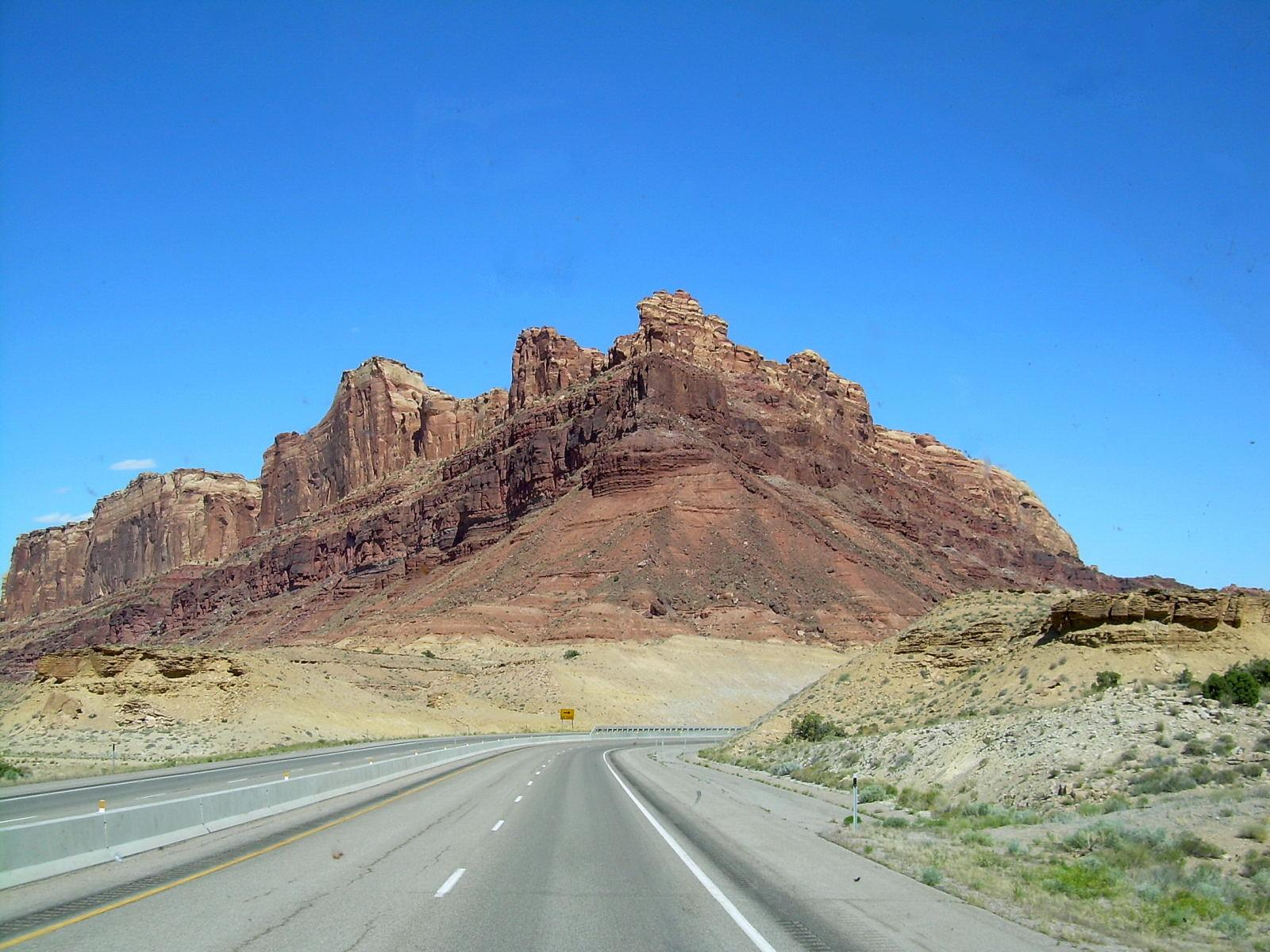 Interstate 70 through Utah